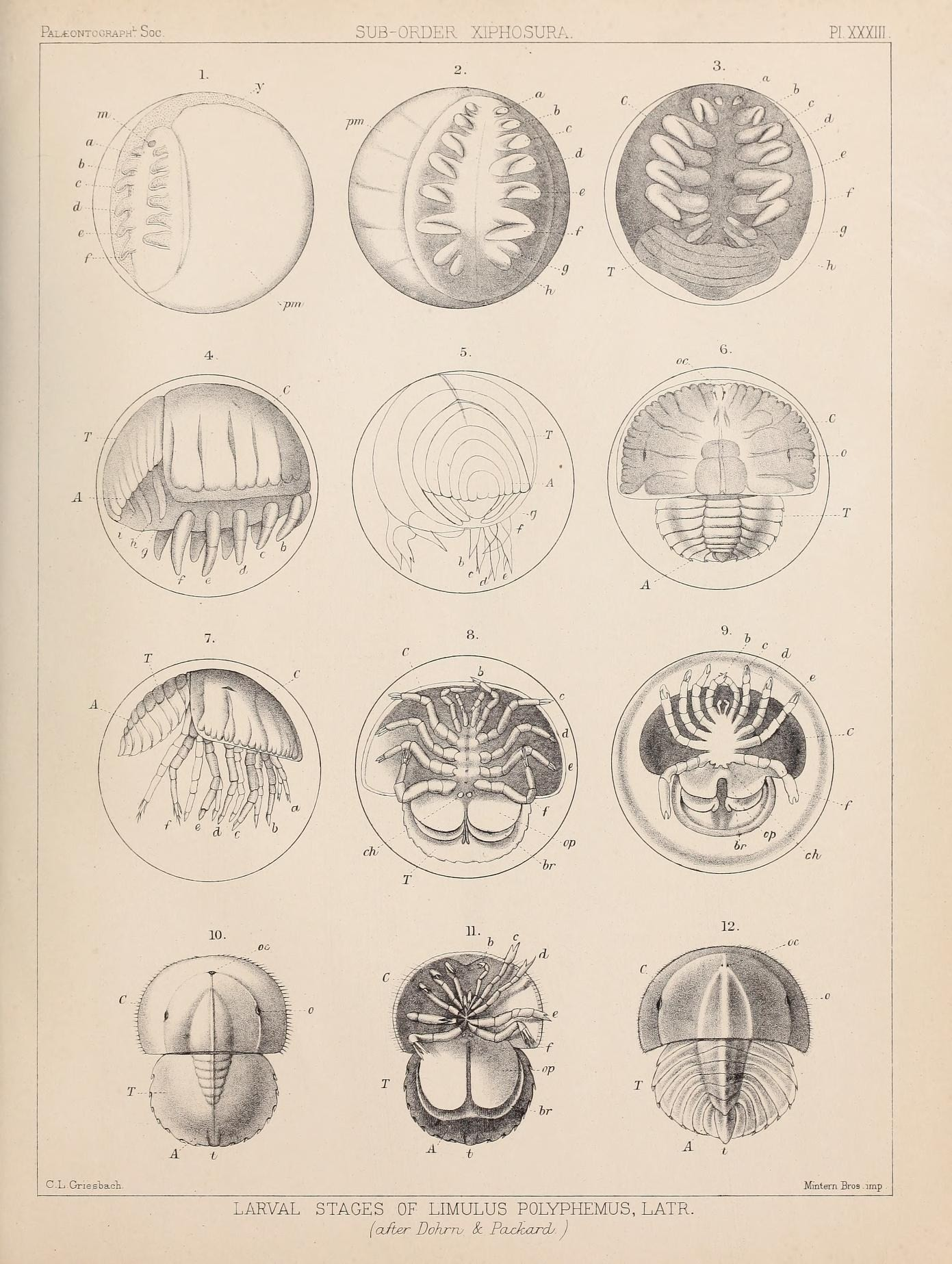 raphV Soc. SUB- D ■ 110 SURA PI. XXXIII. 6.../. c- ■/.. - a - ' A" t C.L GriesTsach 3. c 8. 0C. ..C 12. Mintern Bros imp LARVAL STAGES OF LIMULUS POLYPHEMUS, LATR. (after Dokrrv &. Paxkcurds- J